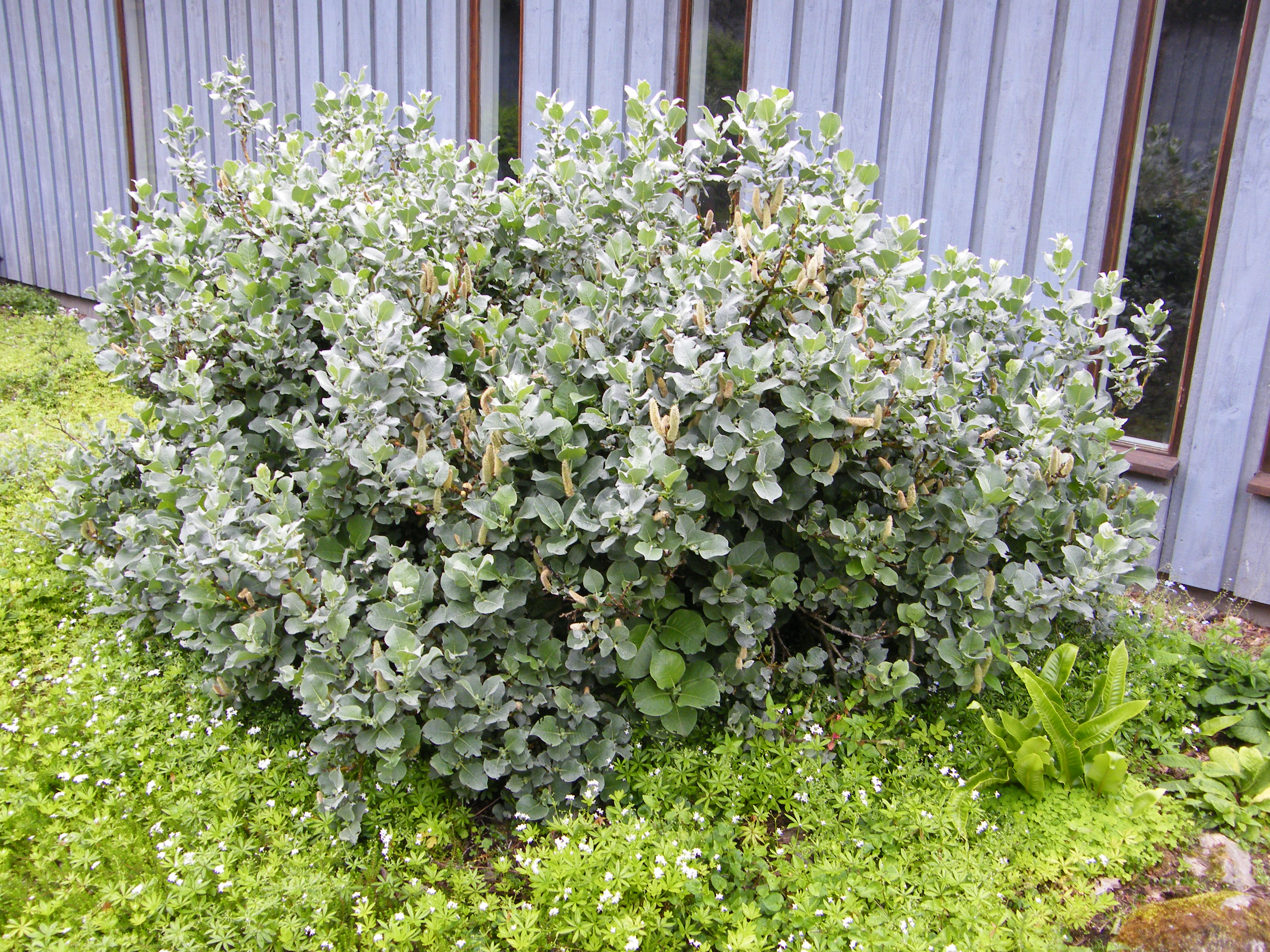 Salix lanata: general view.